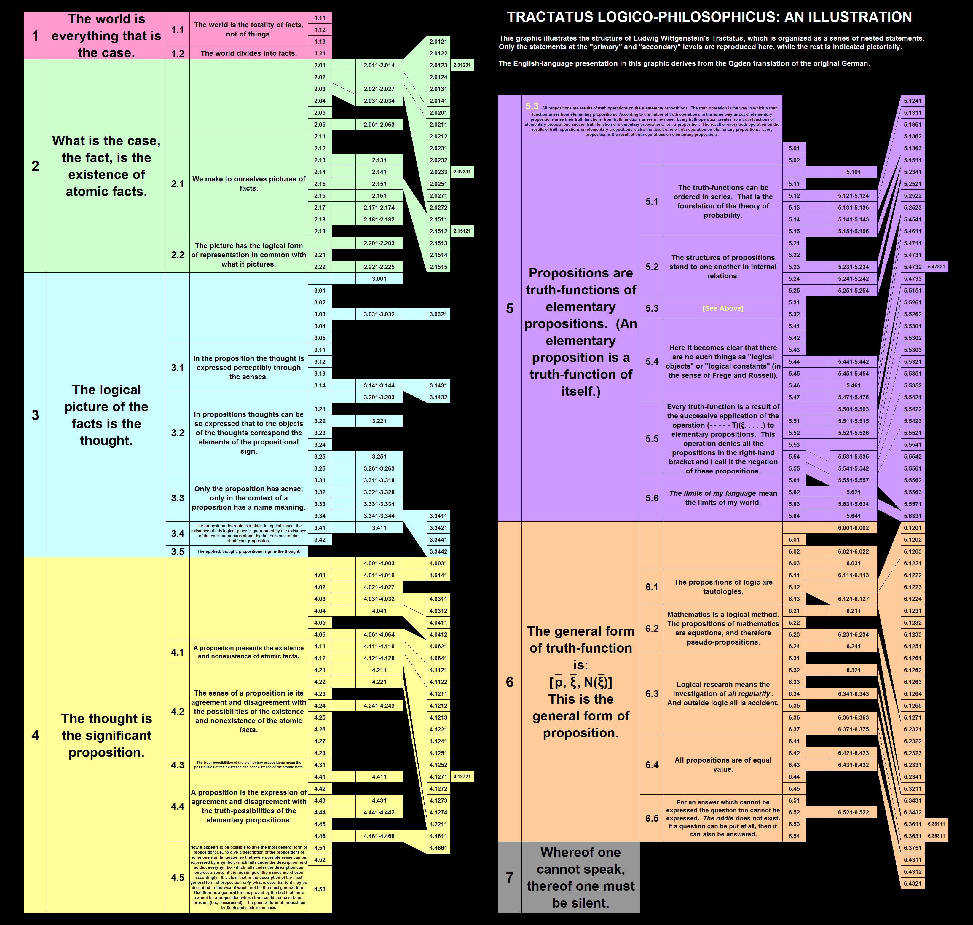 An illustration of the structure of Tractatus Logico-Philosophicus, by Ludwig Wittgenstein.